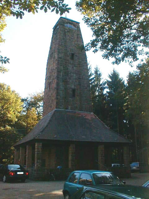 Lookout tower of the Odelwald club on the Weißer Stein near Dossenheim